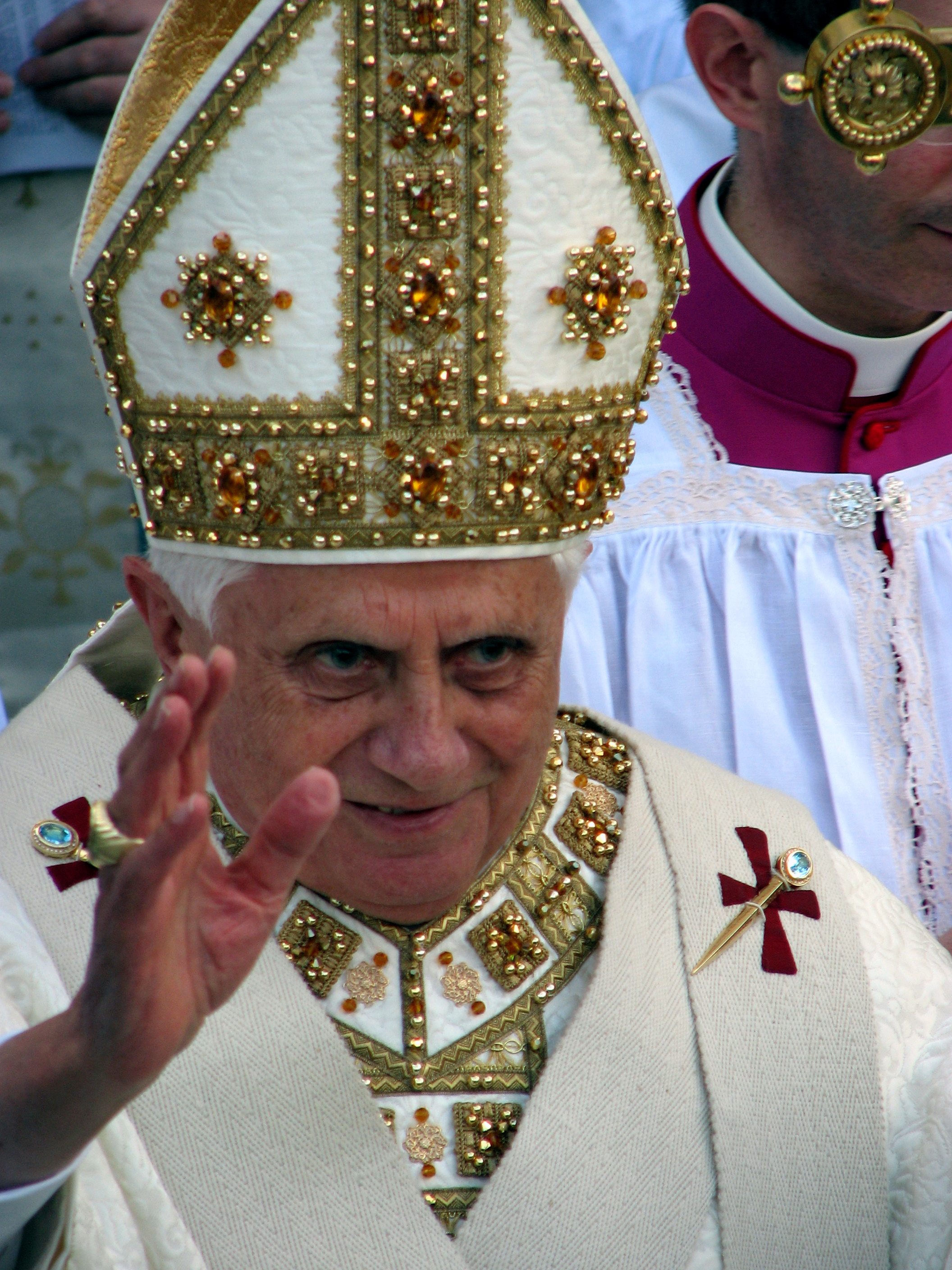 Pope Benedict 16th's visit to Genoa on May 18th 2008